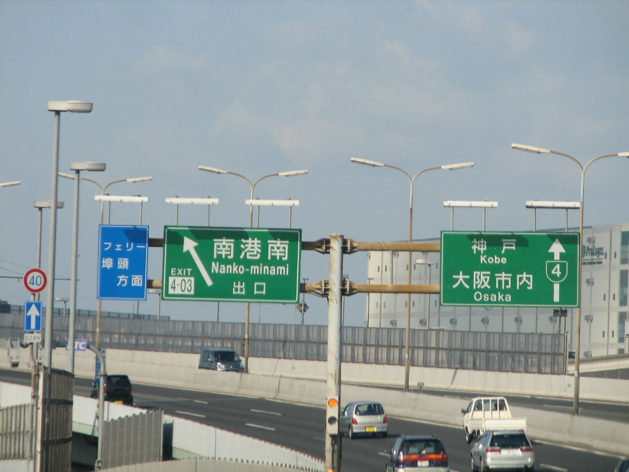 Hanshin Expressway Nankō-minami IC